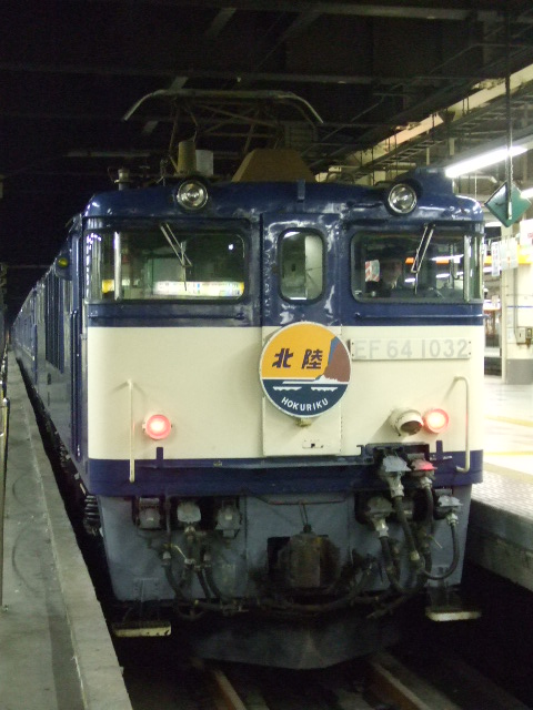 LTD Exp.〝Hokuriku〟,East Japan Railway,Japan